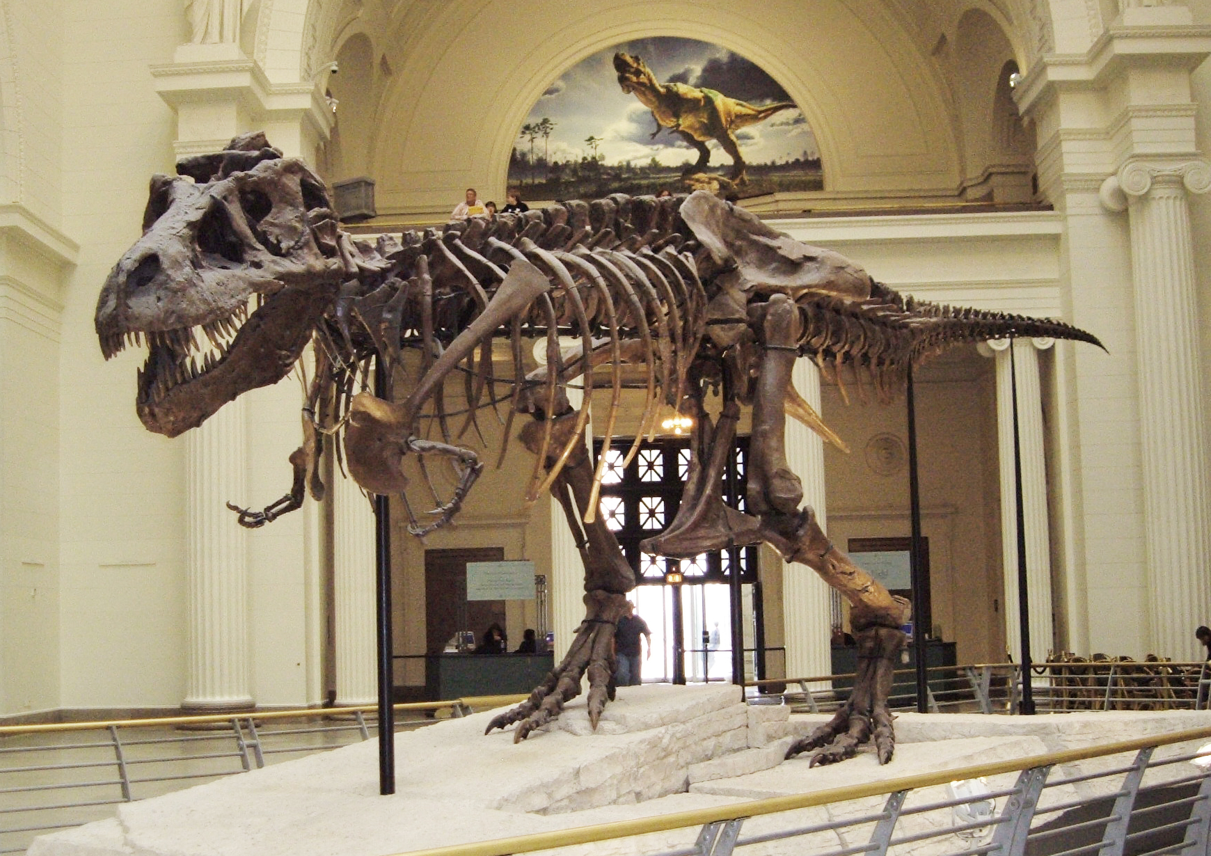 This is an identical copy of the Sue T-Rex skeleton at Animal Kingdom Walt Disney World